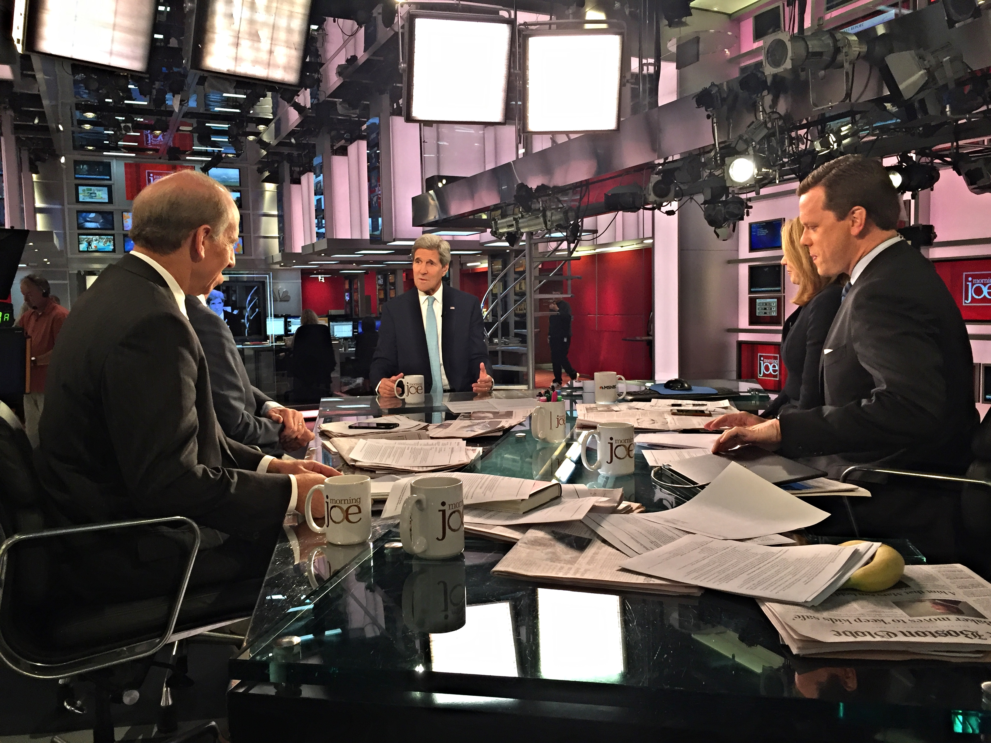 U.S. Secretary of State John Kerry talks about Syria, ISIL, and world affairs with the team on MSNBC's "Morning Joe" program - Nicolle Wallace, Mike Barnicle, Mark Halperin, Richard Haass, and Katty Kay - during an appearance on September 29, 2015. The Secretary is in New York City for the 70th Regular Session of the UN General Assembly. [State Department photo/ Public Domain]